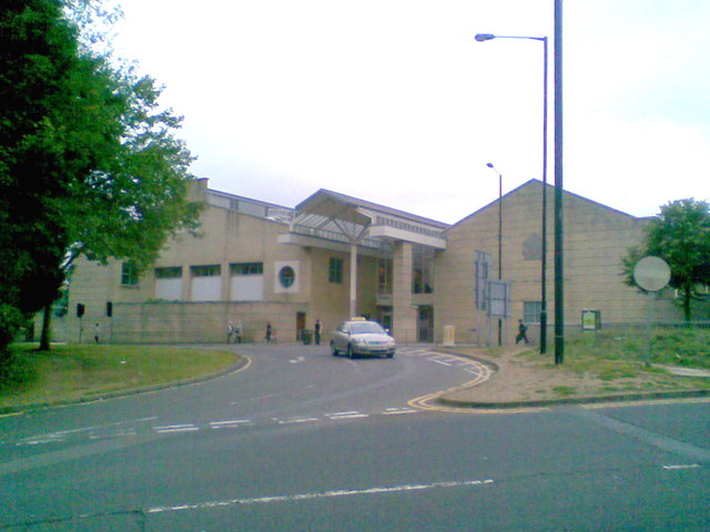 Northampton Combined Court